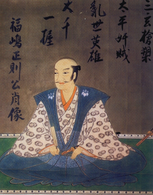 福島正則 日本の安土桃山時代から江戸時代にかけての武将であり大名である。 Fukushima Masanori (1561-1624) was a samurai of the late Sengoku Period to early Edo Period.